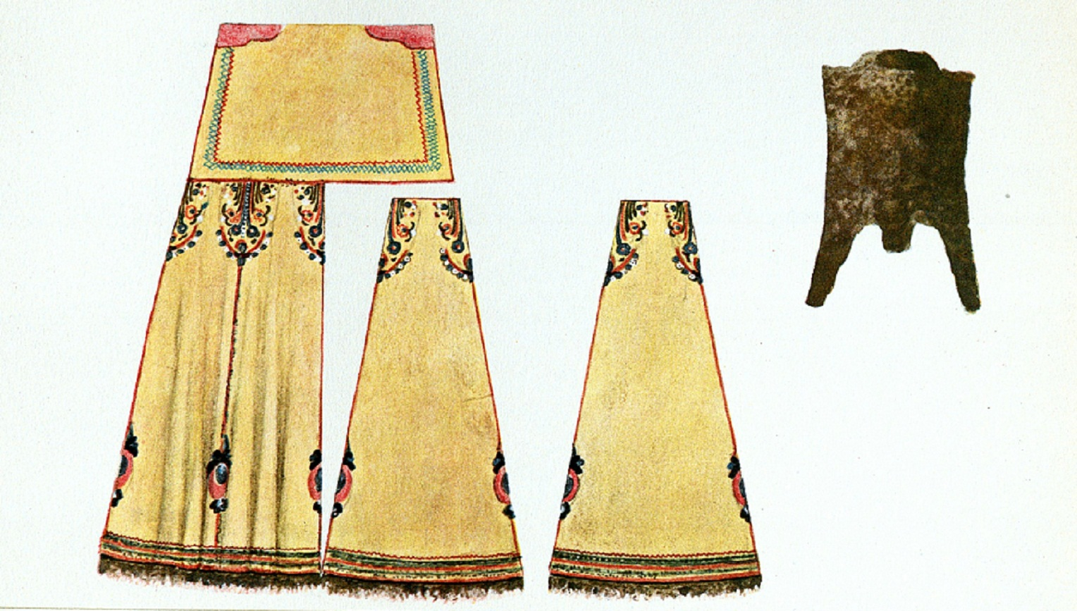 Bunda